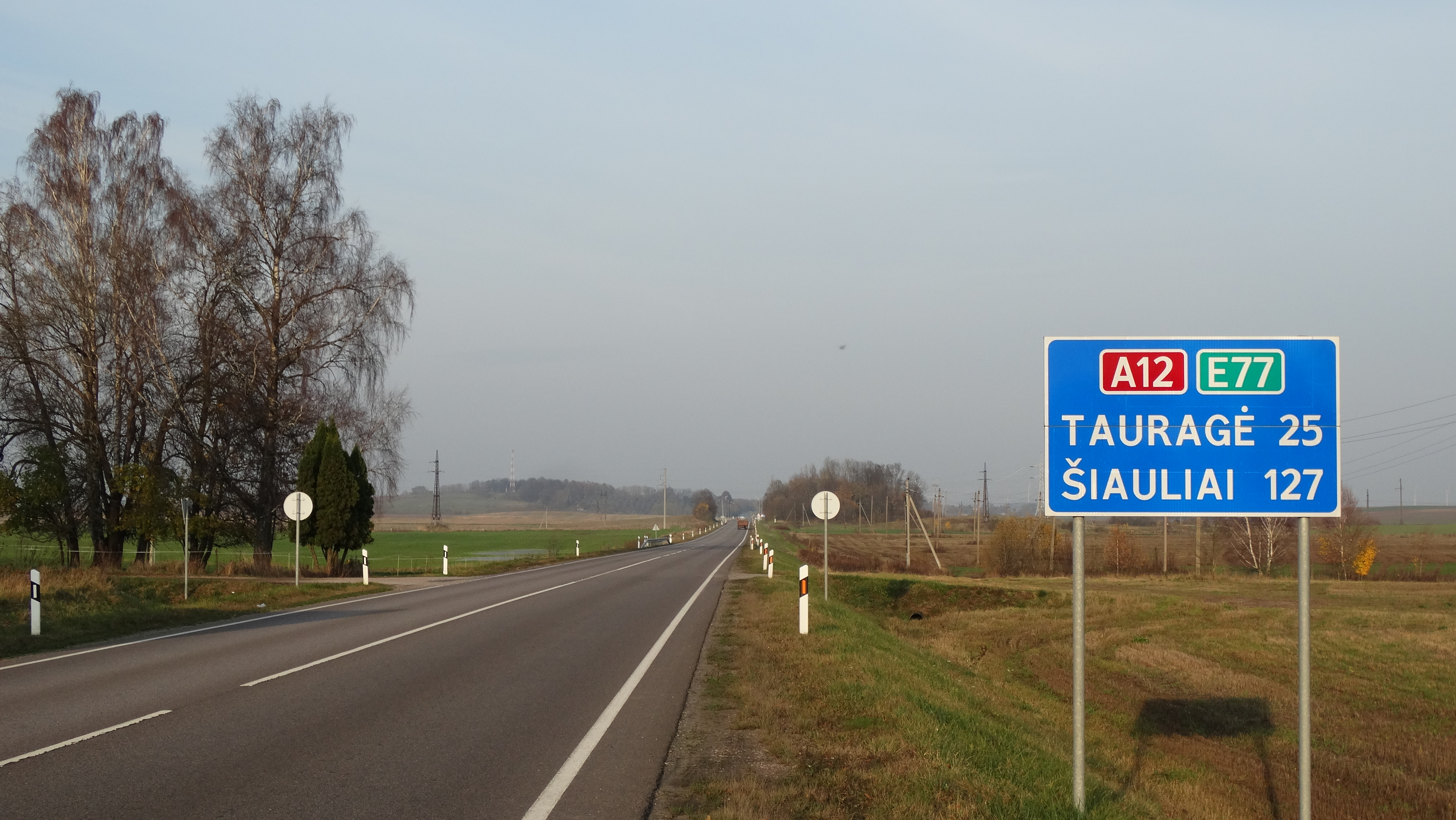 Road A12, Mikytai, Pagėgiai Municipality, Lithuania